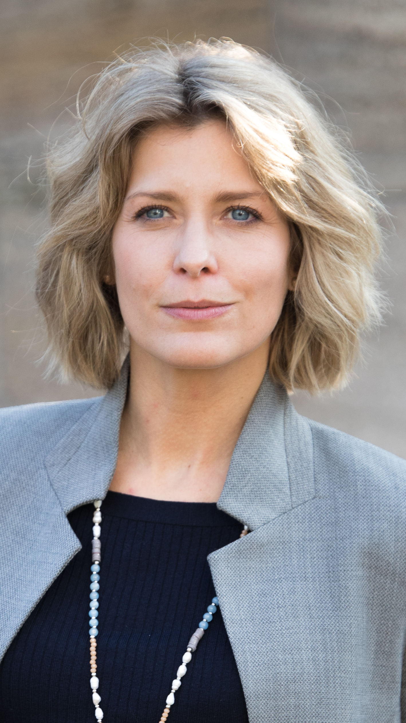 Valerie Niehaus at the reception of the state government of Hesse, Berlinale 2018